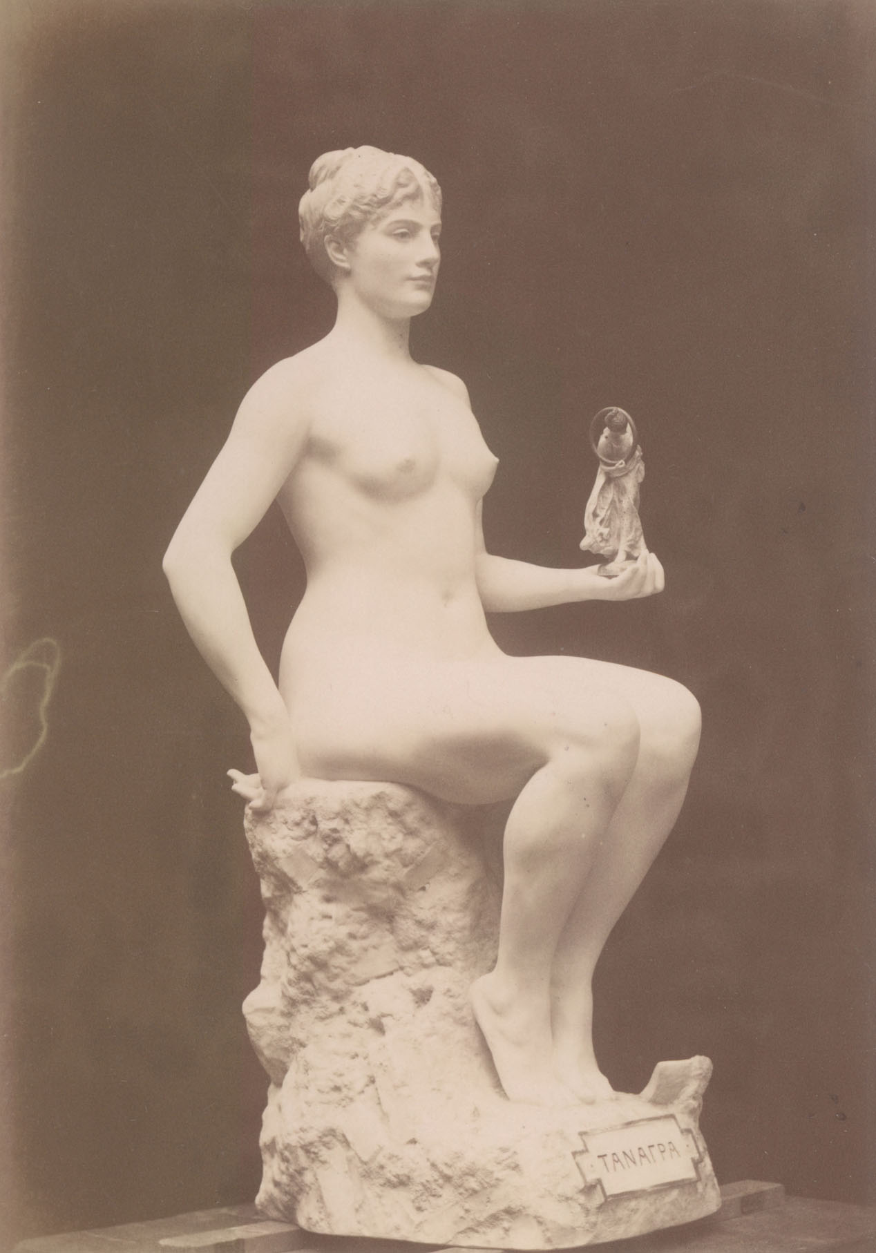 Photography of Statue "Tanagra" by Jean-Léon Gérôme